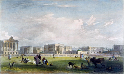 This painting depicts the Government House in Calcutta and Esplanade Row.